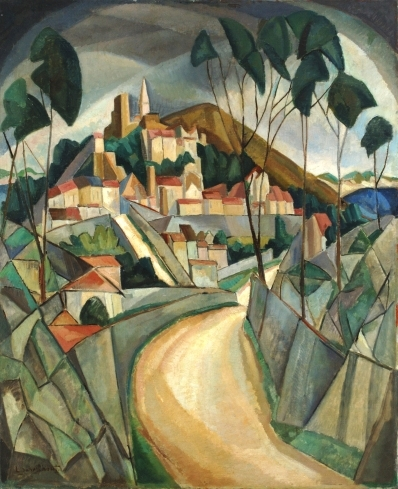 Les Angles